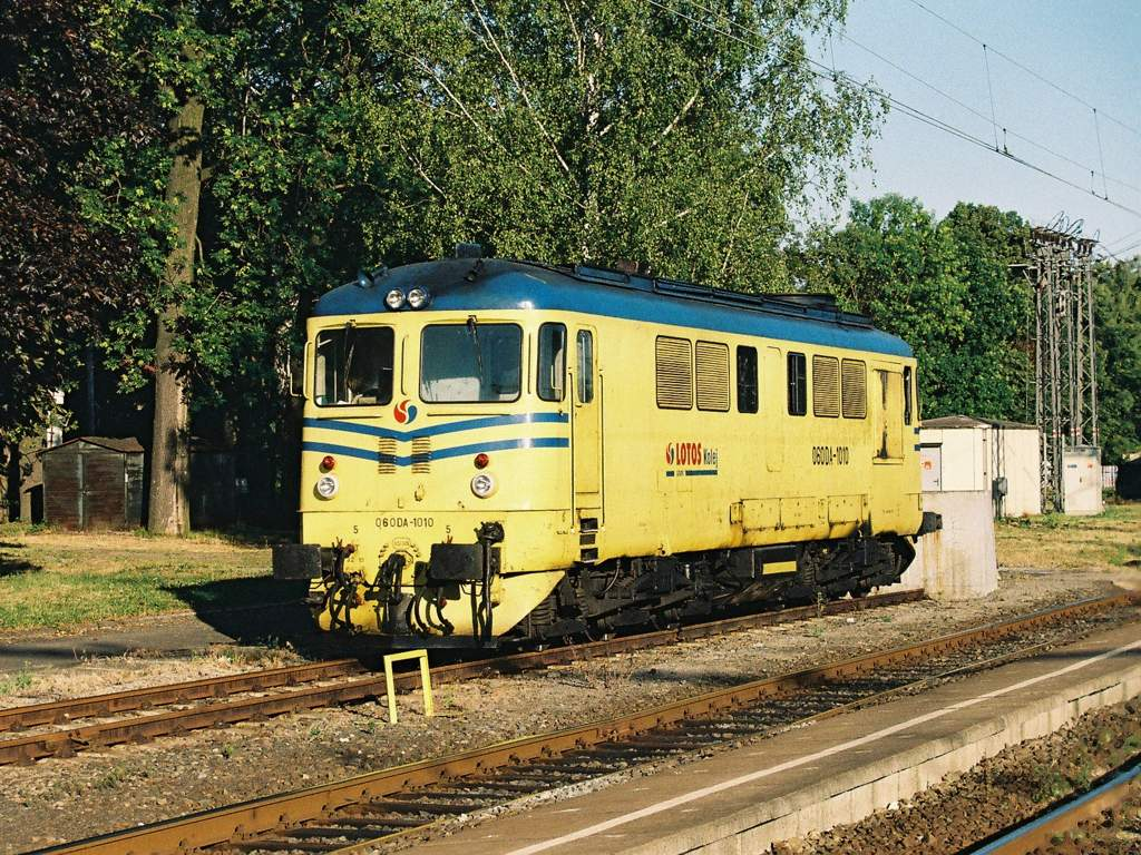 Locomotive 060DA-1010 of Polish operator Lotos Kolej at Czech station Petrovice u Karviné.